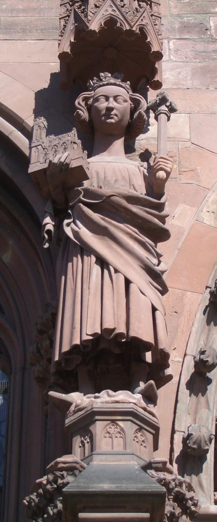 Sculpture of German emperor Henry II on the cathedral's portal, Basel, Switzerland